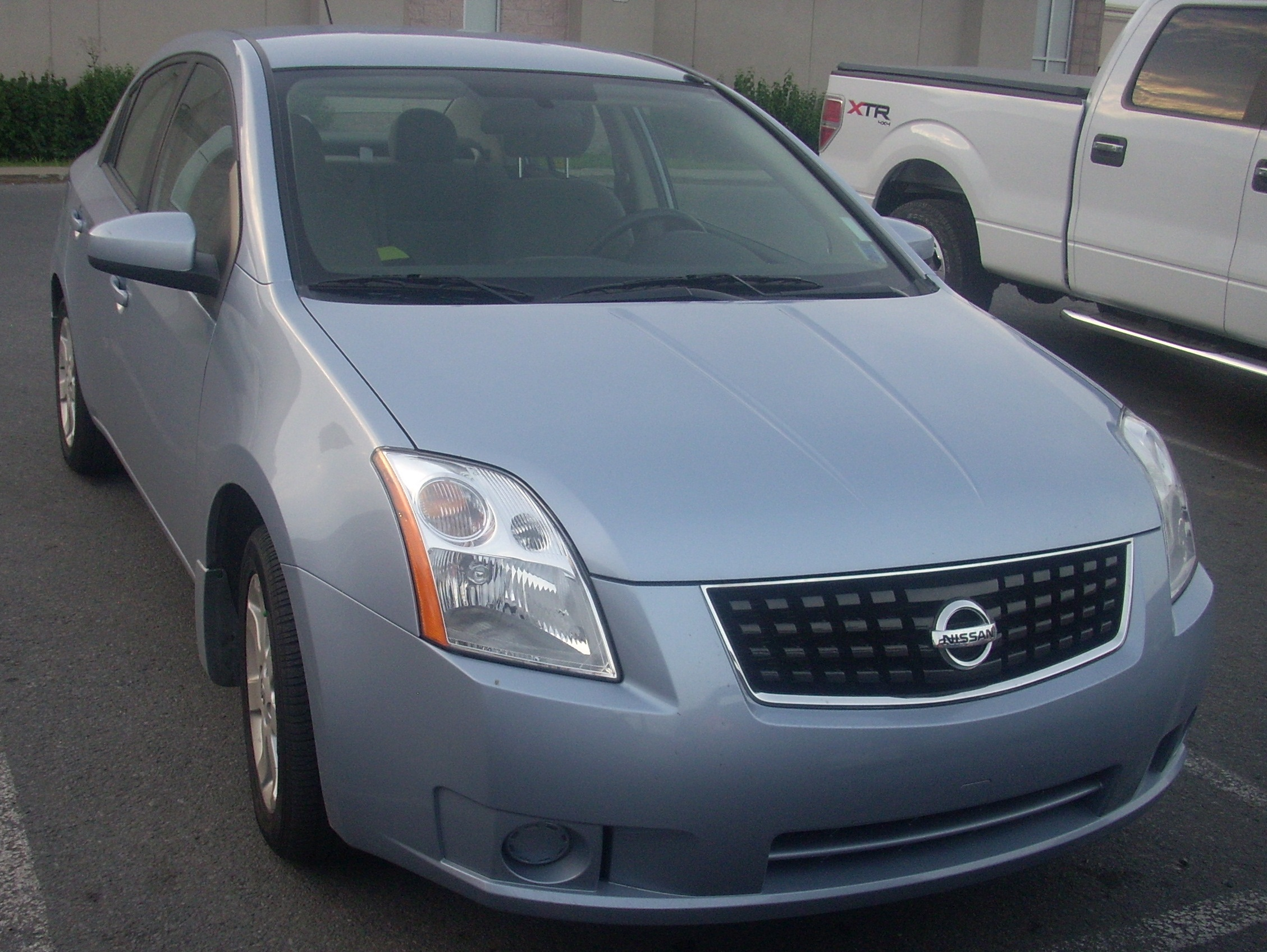 2009 Nissan Sentra photographed in Kirkland, Quebec, Canada.